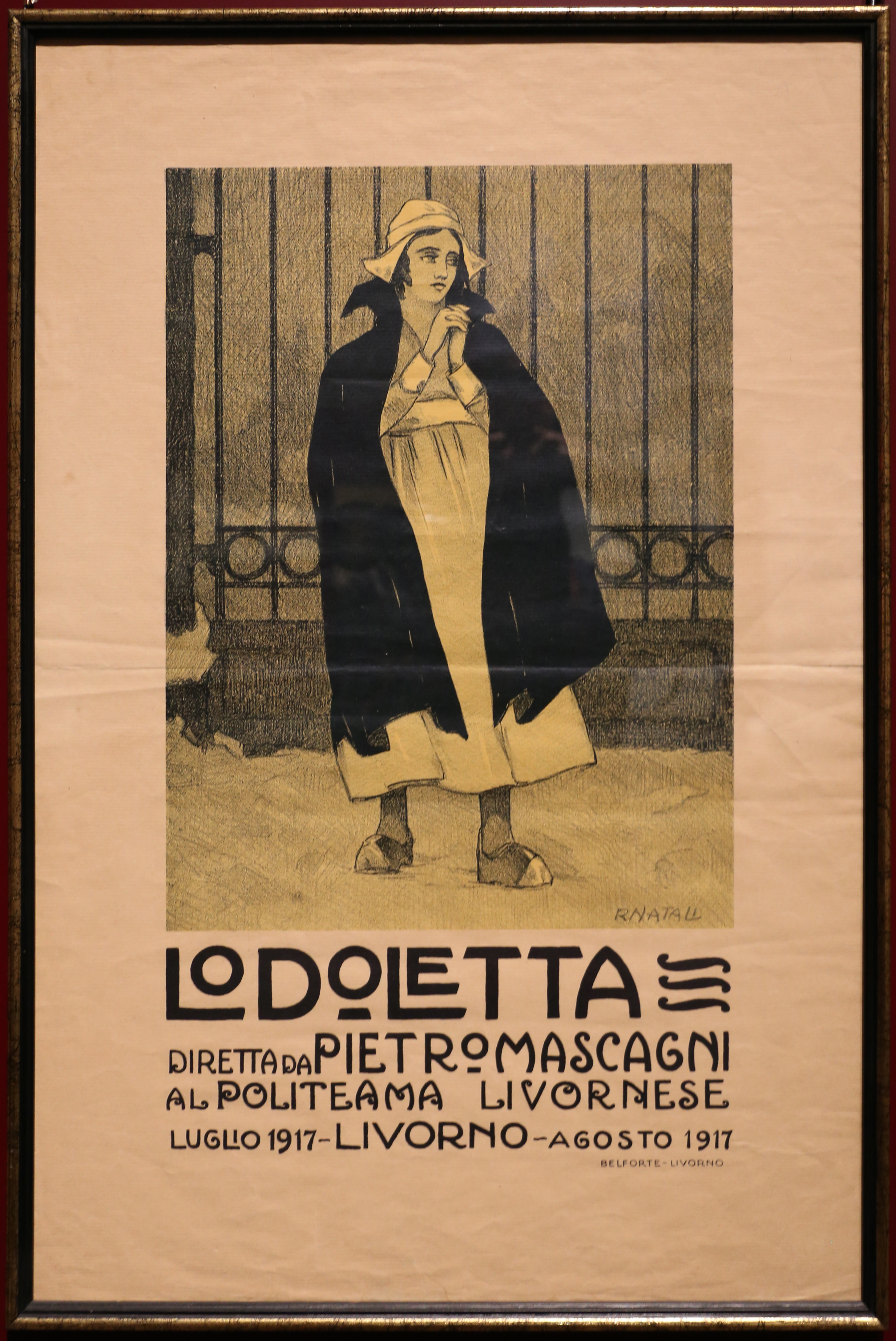 Collections of the Museo della città (Livorno)